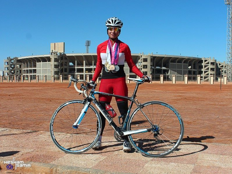 Ebtisam Zayed, ägyptische Radsportlerin Ebtisam Zayed, cyclist from Egypt